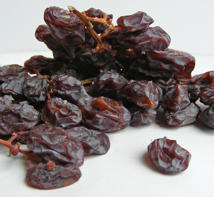 Dried Muscat Grapes.